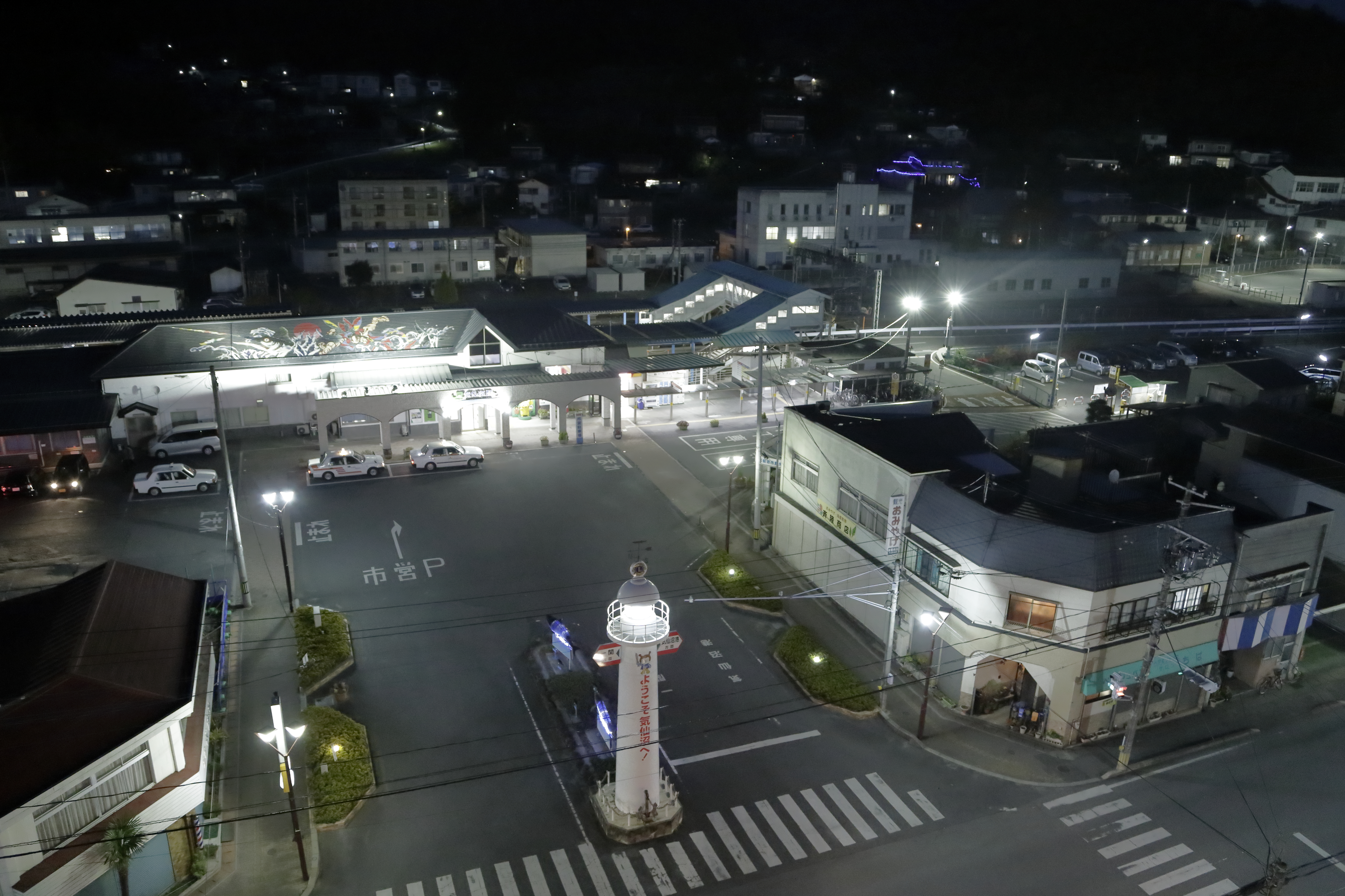 Kesennuma Station in night.